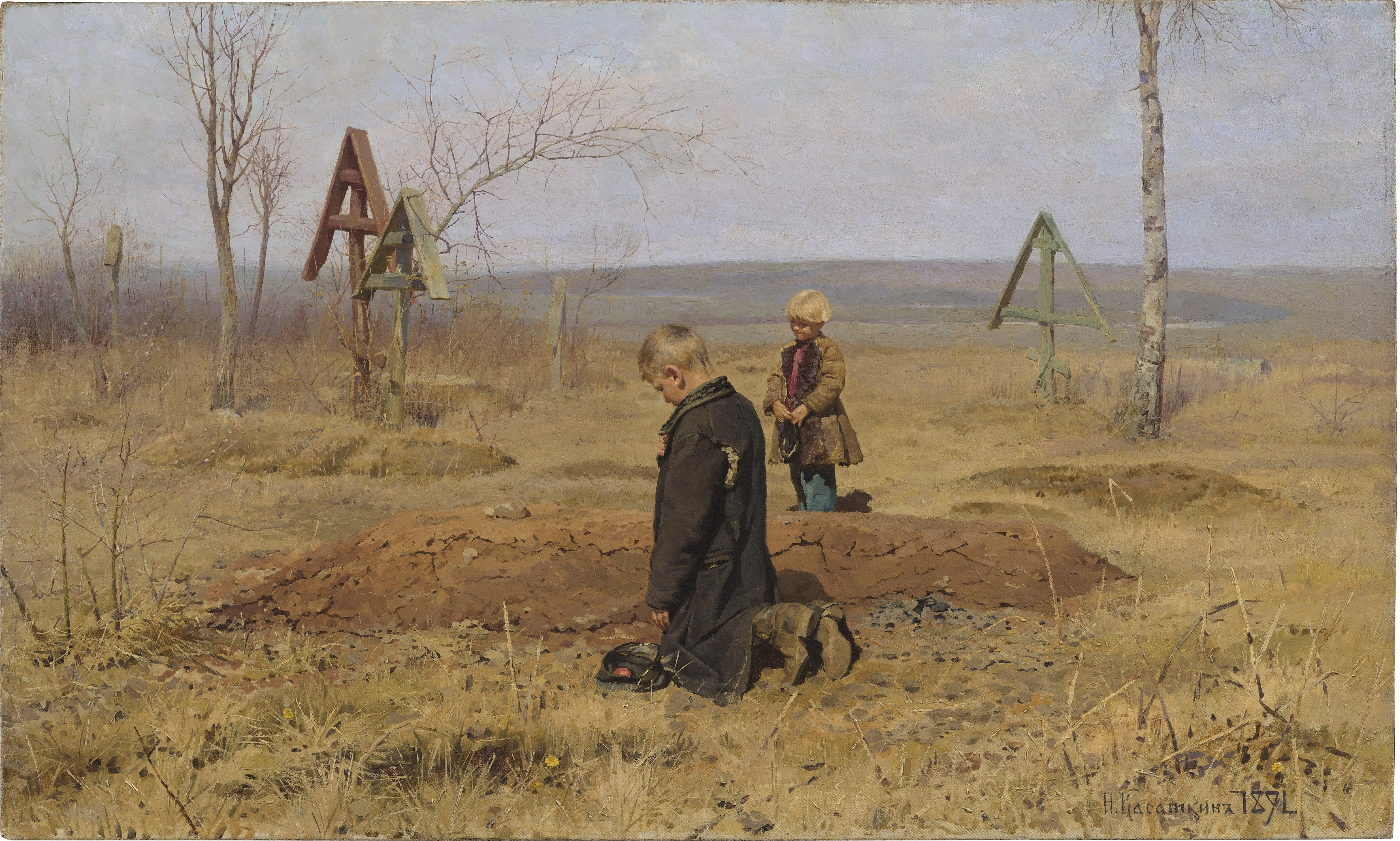 Orphaned. 1891